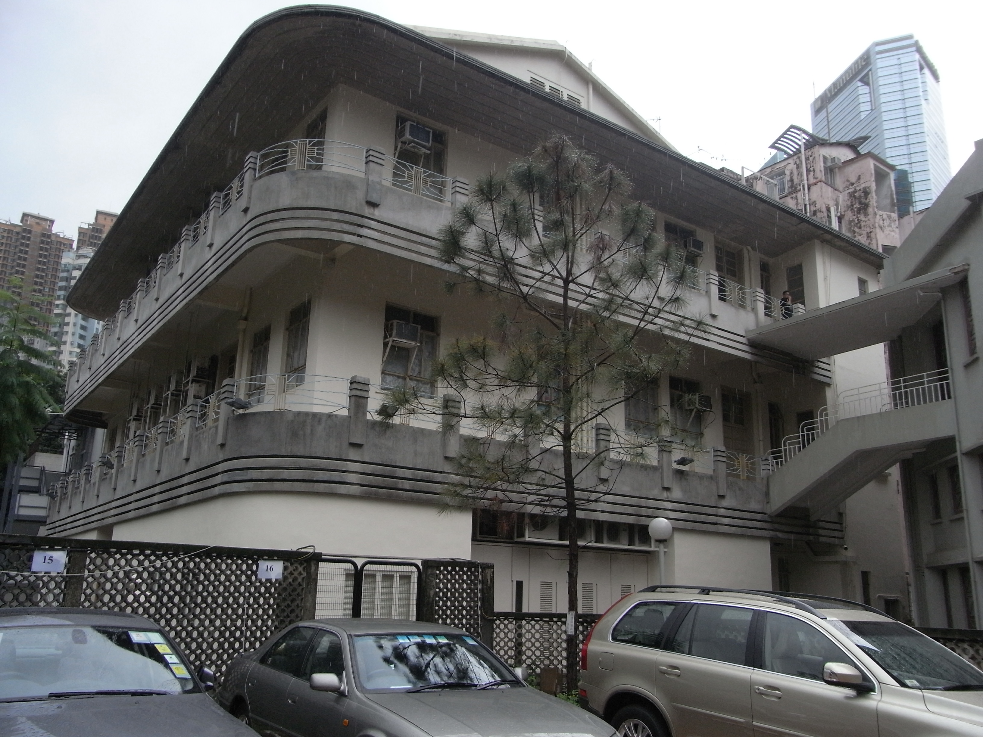 銅鑼灣2010年6月 聖保祿修院 露天 停車場